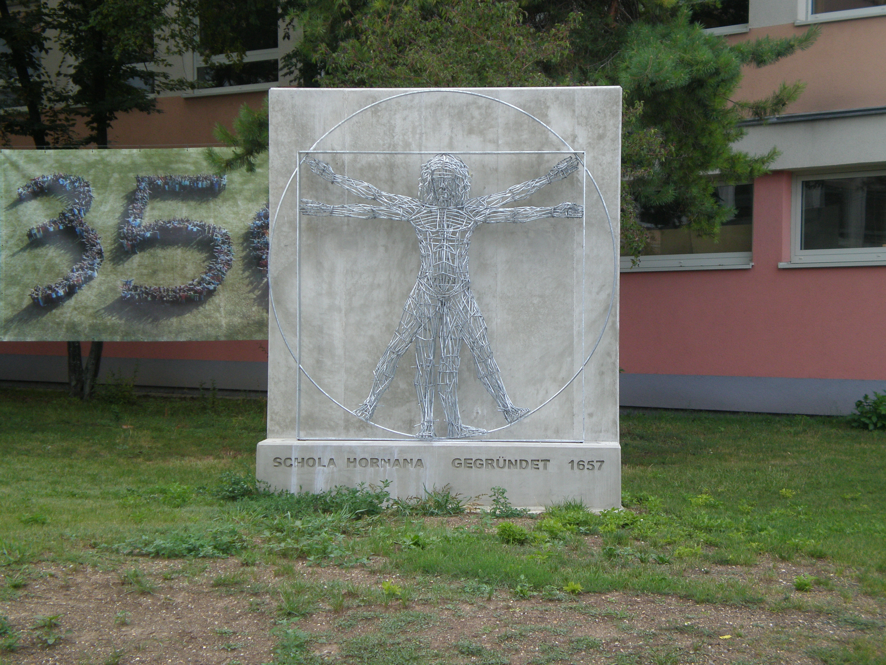 Horn, Lower Austria: monument for the 350th anniversary of Schola Hornana, now the Bundesgymnasium, Bundesrealgymnasium und Bundesaufbaugymnasium Horn